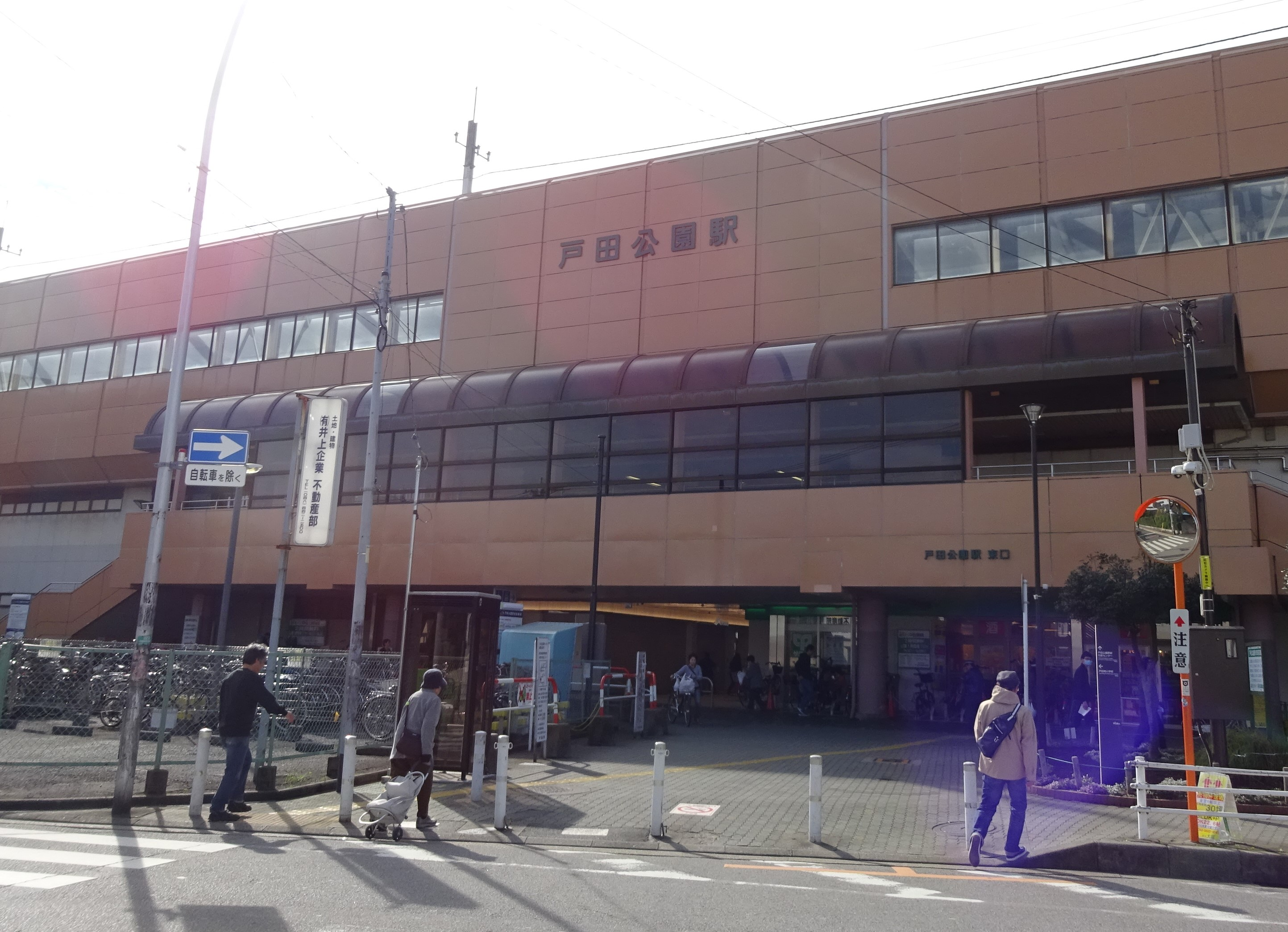 East Entrance of Toda-Kōen Station